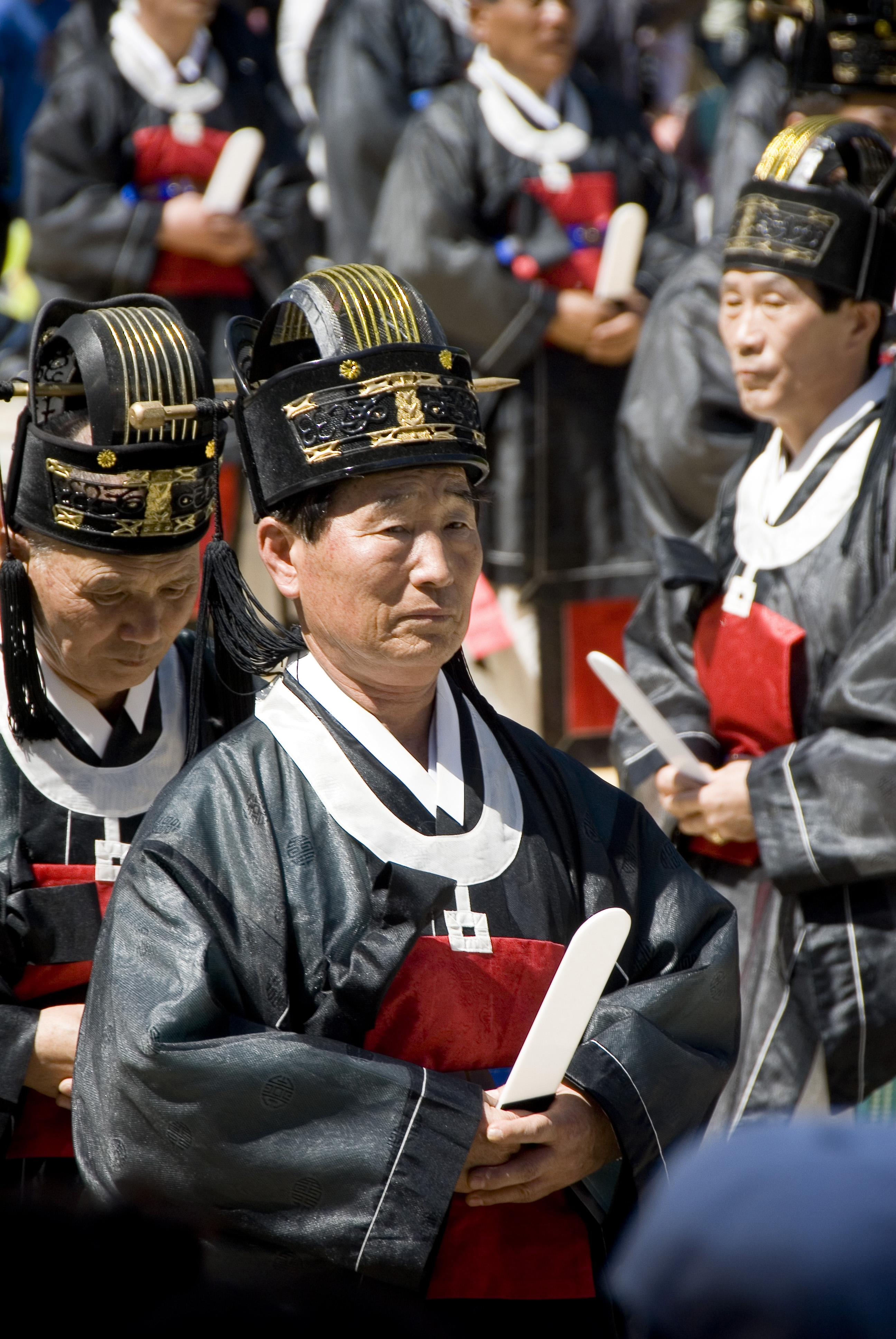 Korean participants reenact a 600-year-old ceremony down to the finest detail. More than 1,500 onlookers watch at the Jongmyo Shrine in Seoul during an annual Korean cultural ceremony.